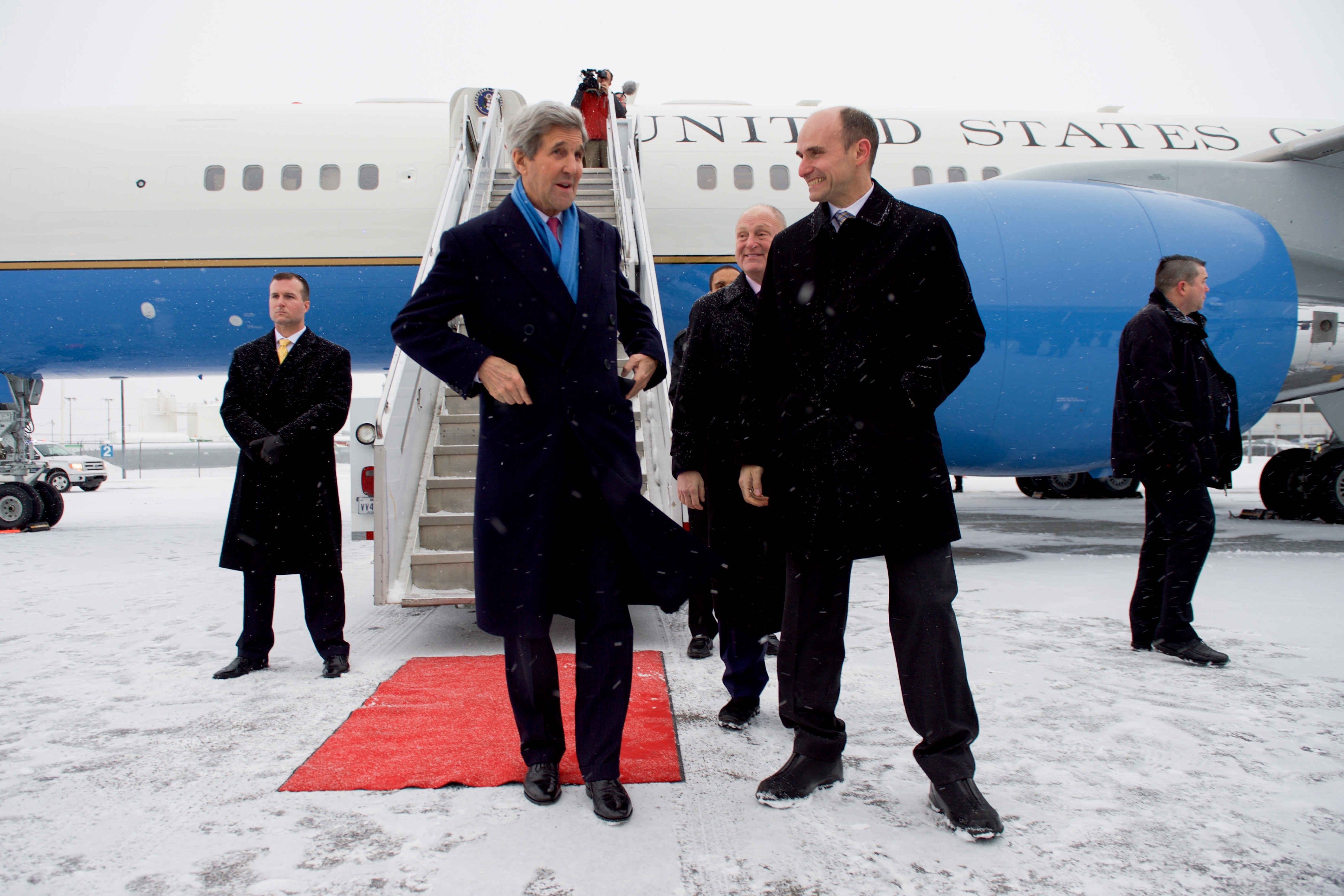 U.S. Secretary of State John Kerry, watched by U.S. Ambassador to Canada Bruce Heyman, walks through the snow with Minister of Families, Children, and Social Development Jean-Yves Duclos as he arrives on Janaury 29, 2016, at Québec City Airport in Québec City, Canada, to attend the North American Ministerial Meeting with Canadian and Mexican officials. [State Department photo/ Public Domain]